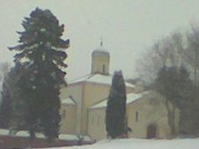 Byzantine Church of the Holy Cross Monastery in Chevetogne, Wallonia, Belgium.